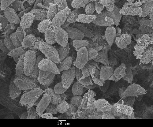 SEM image of endoparasitoidic ciliates of the genus Collinia, which can cause mass mortality in affected krill populations. Image copyright Dr. Jaime Gómez-Gutiérrez, who has agreed to license this image under the terms of the GFDL.